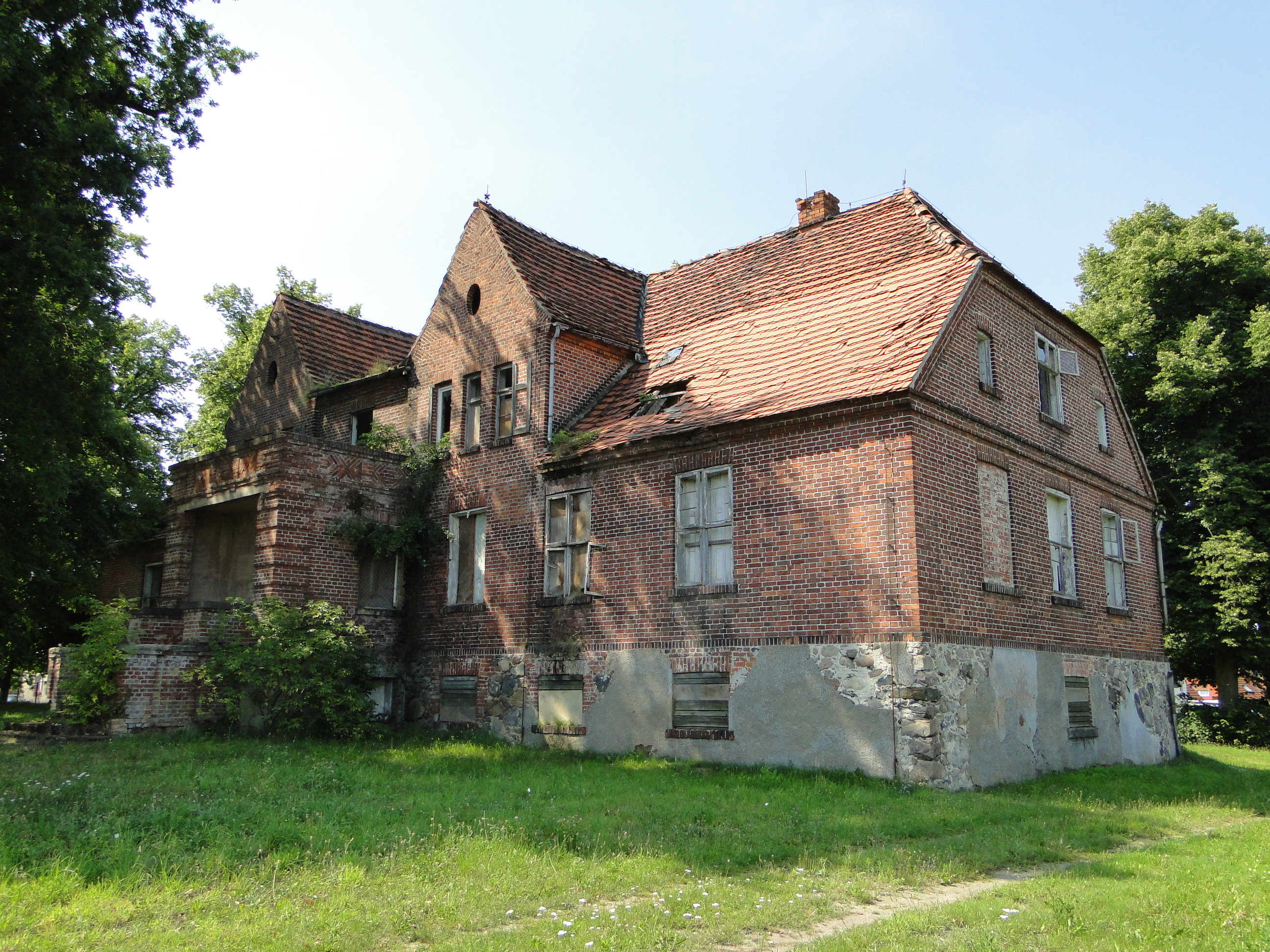 Abandoned, former manor house in Beckentin, district Ludwigslust-Parchim, Mecklenburg-Vorpommern, Germany